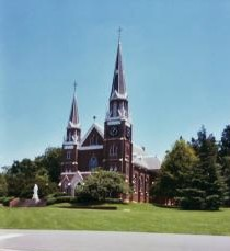 Belmont Abbey